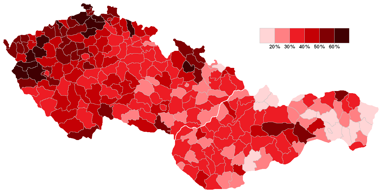 Results of the Communist Party of Czechoslovakia and the Communist Party of Slovakia in the 1946 elections